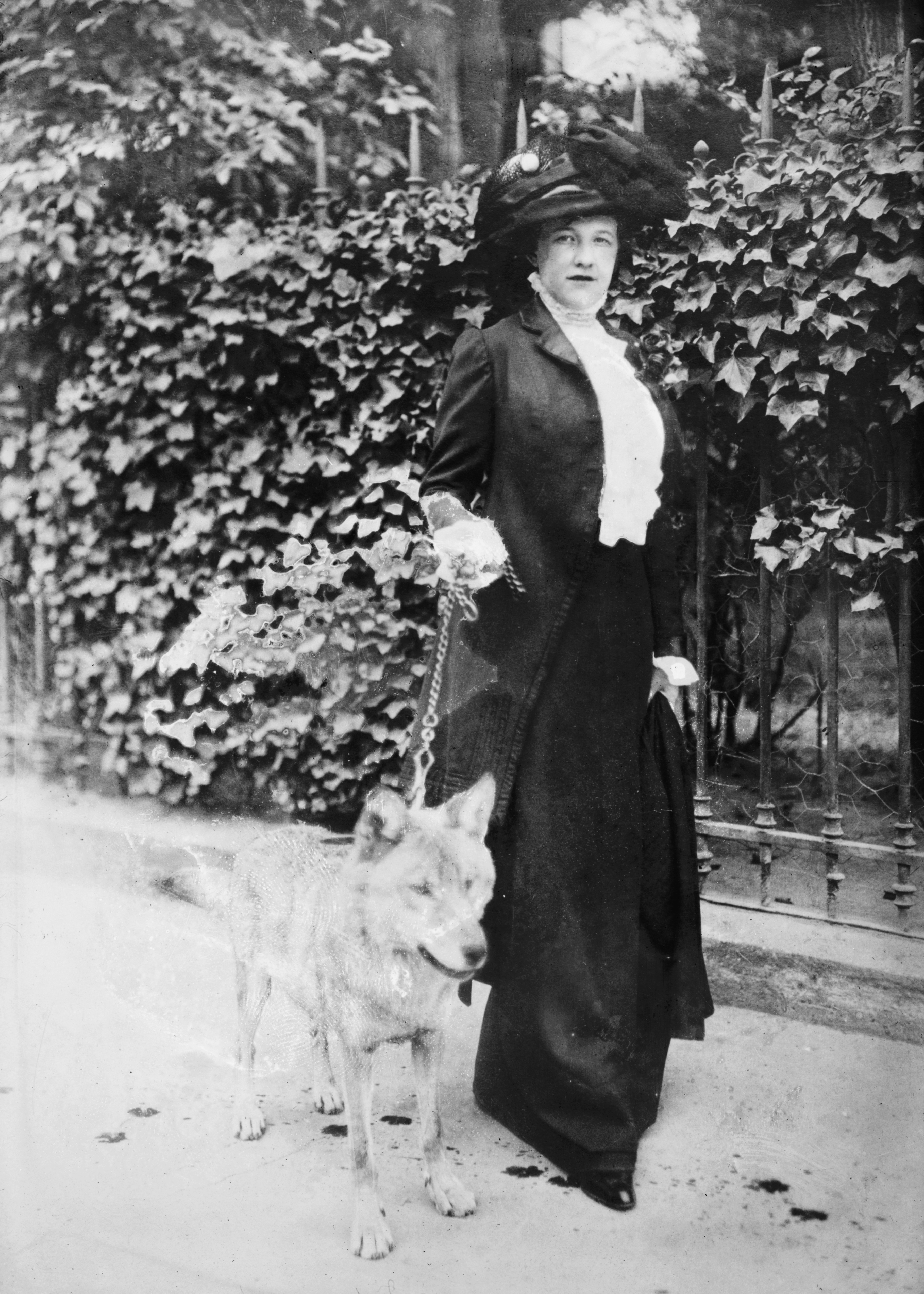 Countess Troubetskoy & Fang the wolf